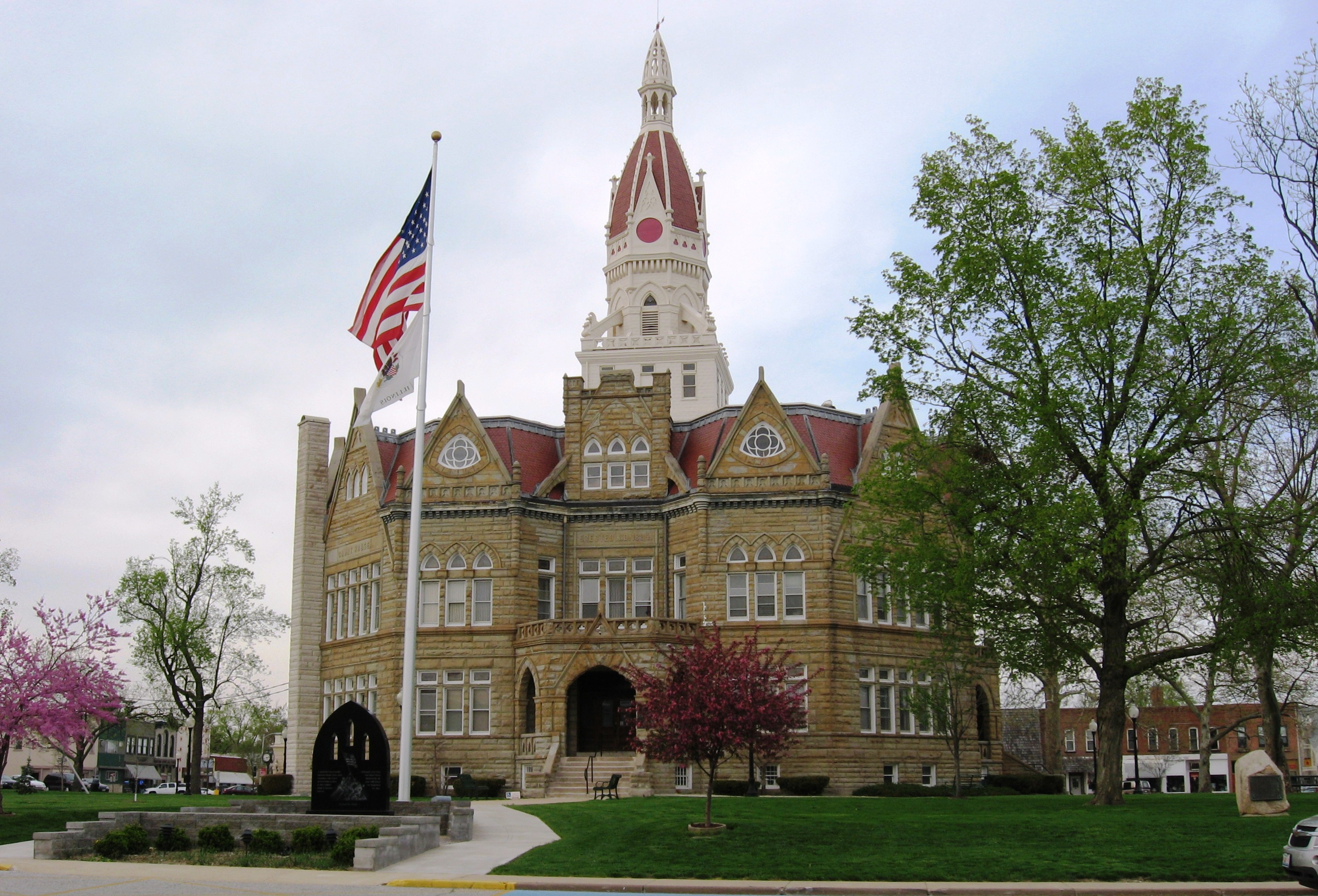 Courthouse, Pike County, Illinois. Is part of the NRHP-listed Pittsfield Historic District.